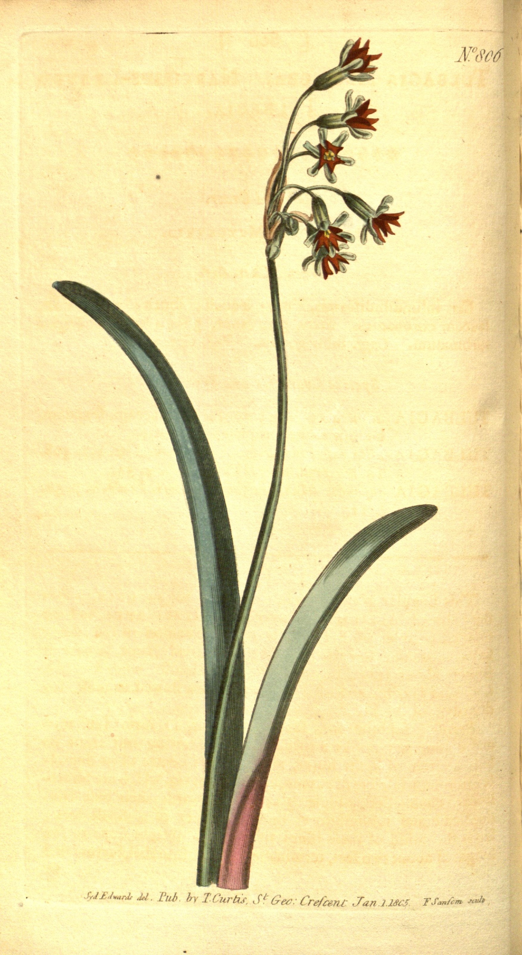 N r m VI M M i'nb h I ( 'urtif. , V Gee; CrtfotU , Tan uses TSS*m M